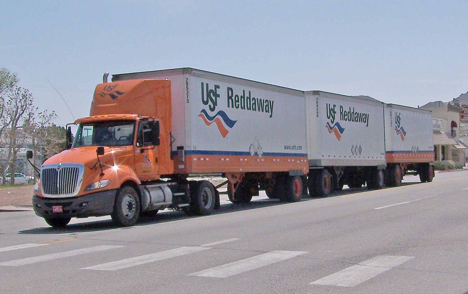 Beatty, Nevada